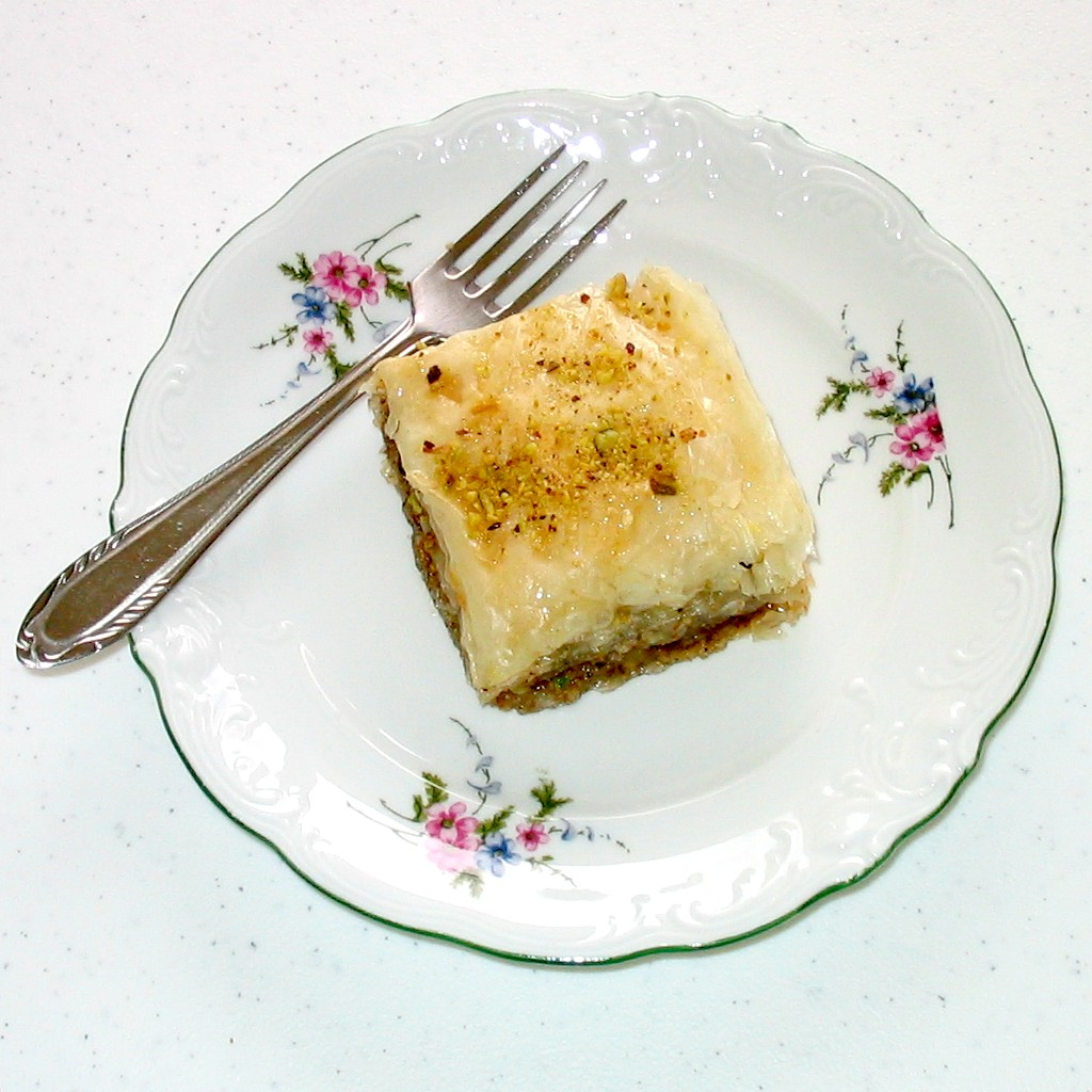 Description: A piece of Turkish Baklava Source: Dori License: Public Domain